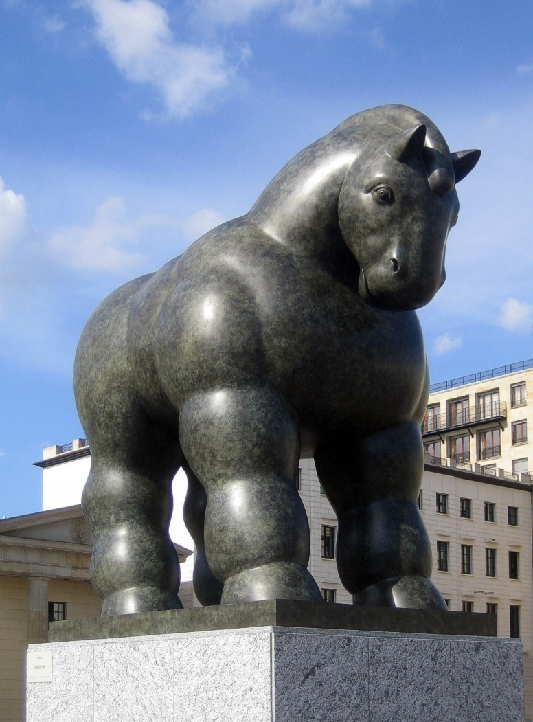 Fernando Botero, sculpture "Horse 06", temporary placed near "Brandenburger Tor", Berlin. Total view.